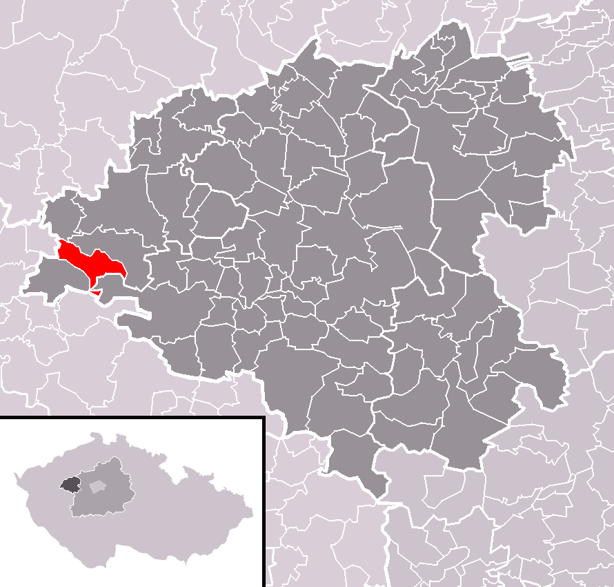 Location of Žďár municipality within Rakovník District and (identical) administrative area of Rakovník as a Municipality with Extended Competence.